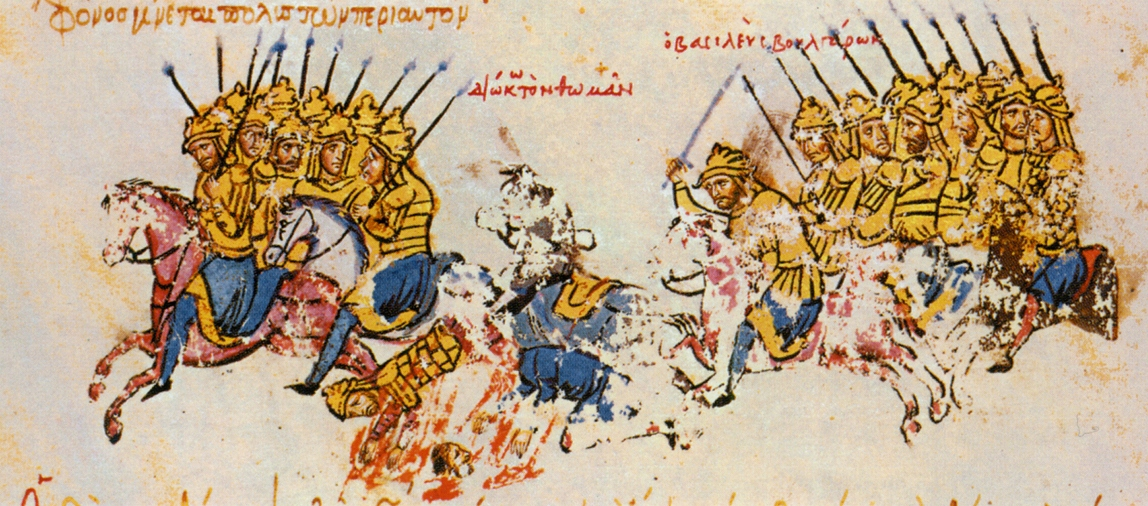 The Bulgarian Mourtagon and Thomas the Rebel